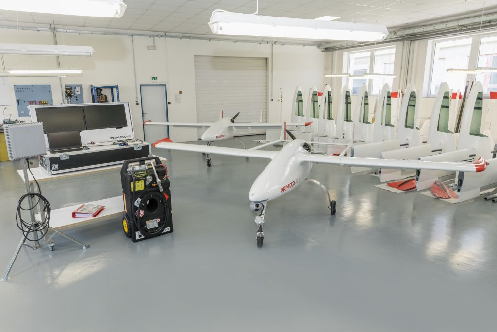 Primoco UAV Assembly